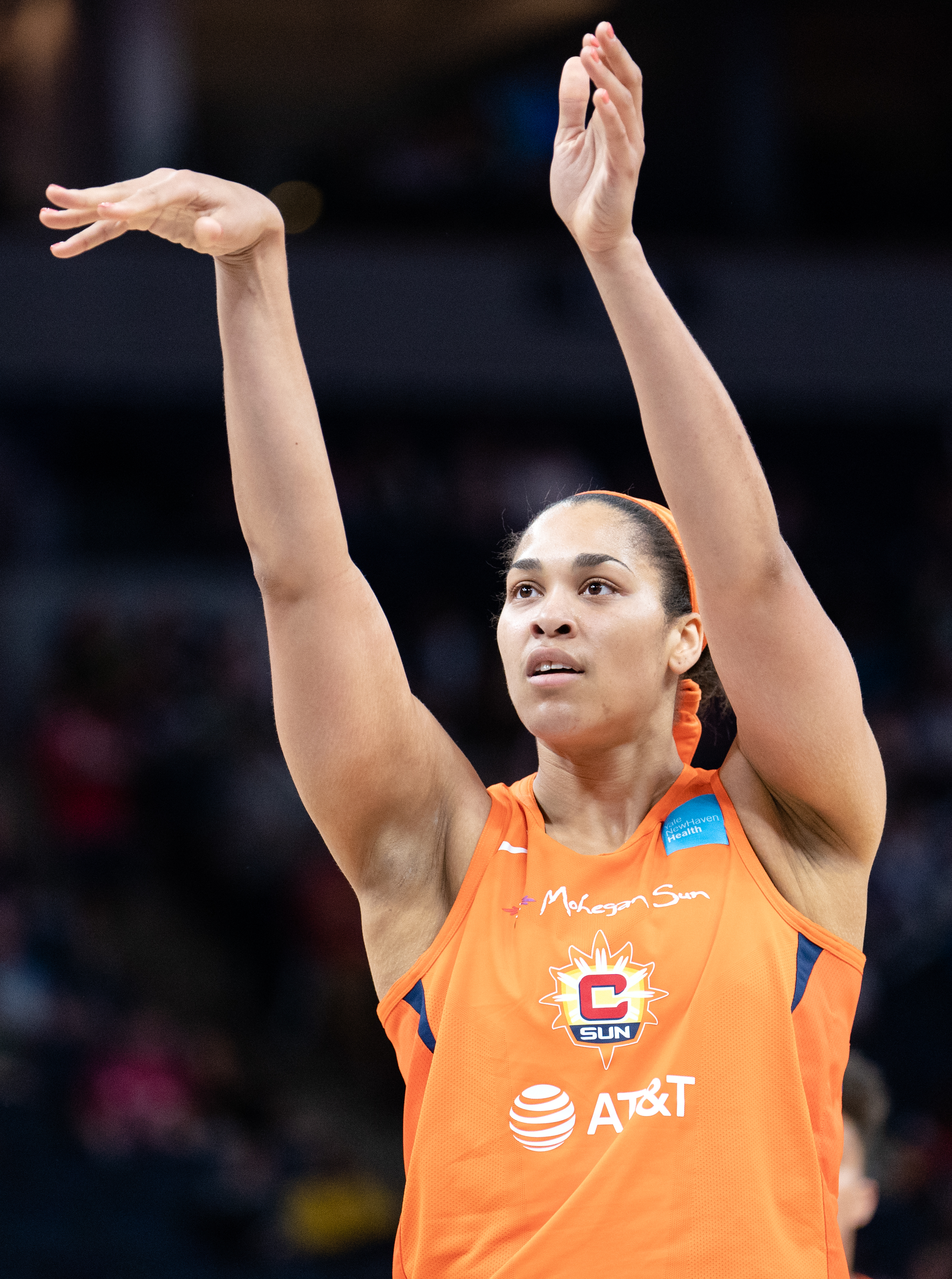 Connecticut Sun player Brionna Jones shoots a foul shot during a game against the Minnesota Lynx